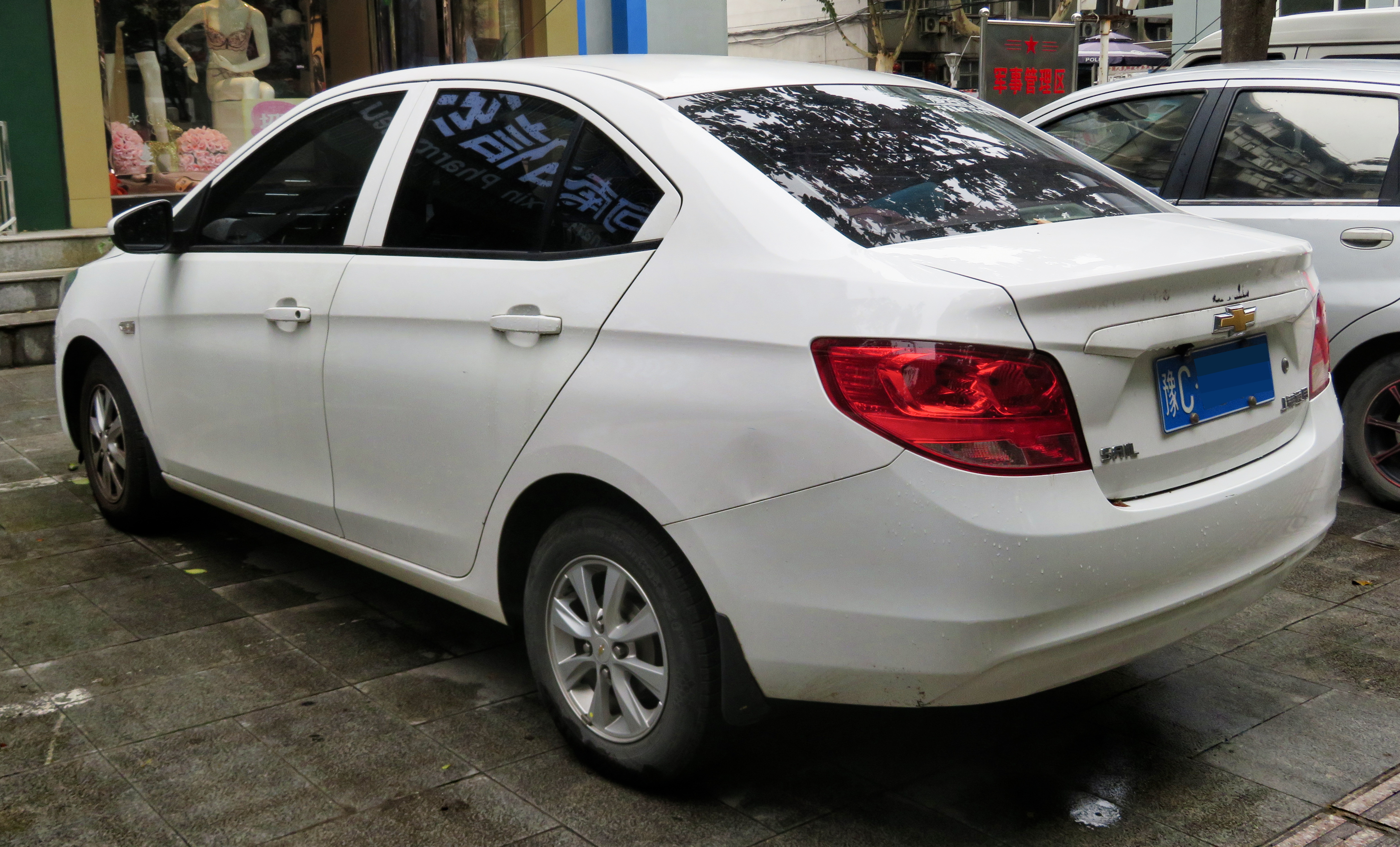 A 2016 SAIC-GM-Chevrolet Sail photographed in Xigong District, Luoyang, Henan province, China